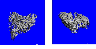 Image on the left shows a microCT image of trabecular bone from proximal tibia from spaceflight mouse compared to ground control mouse on right. Courtesy image from Marshall Space Center. (